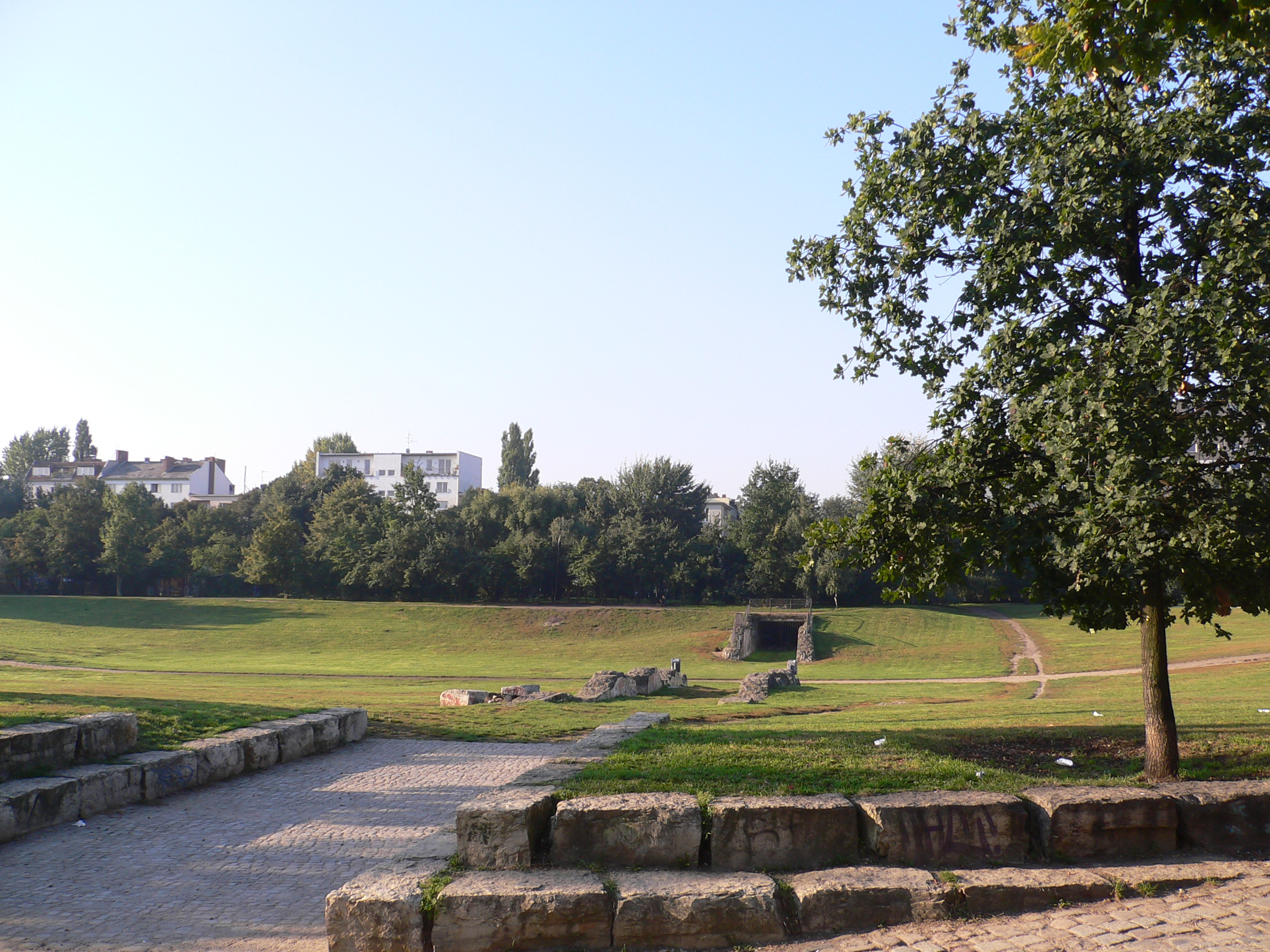 Berlin-Kreuzberg, Germany – Görlitzer Park with uncovered and partly torn off old pedestrian underpass of former Railwaystation Görlitzer Bahnhof